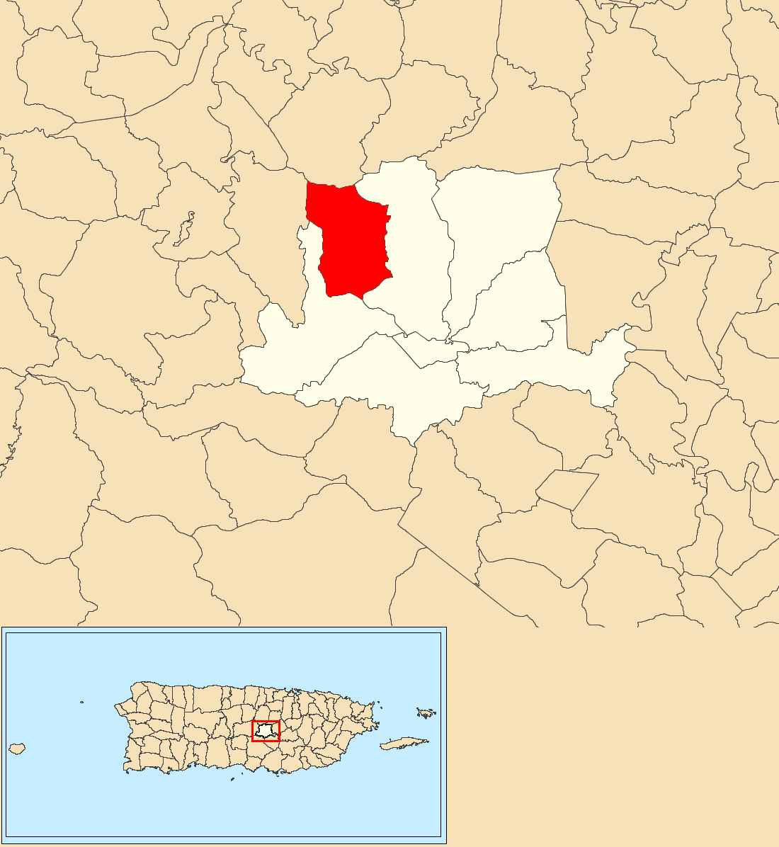 Cañabon, Barranquitas, Puerto Rico locator map